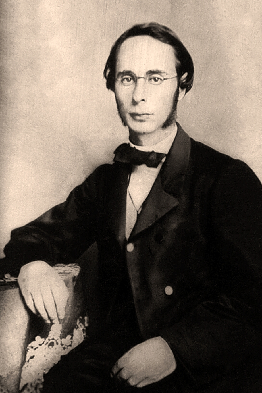 Hermann Herlitz (1834–1920) at the Basel Mission, Switzerland, where he studied from 1859 to 1862